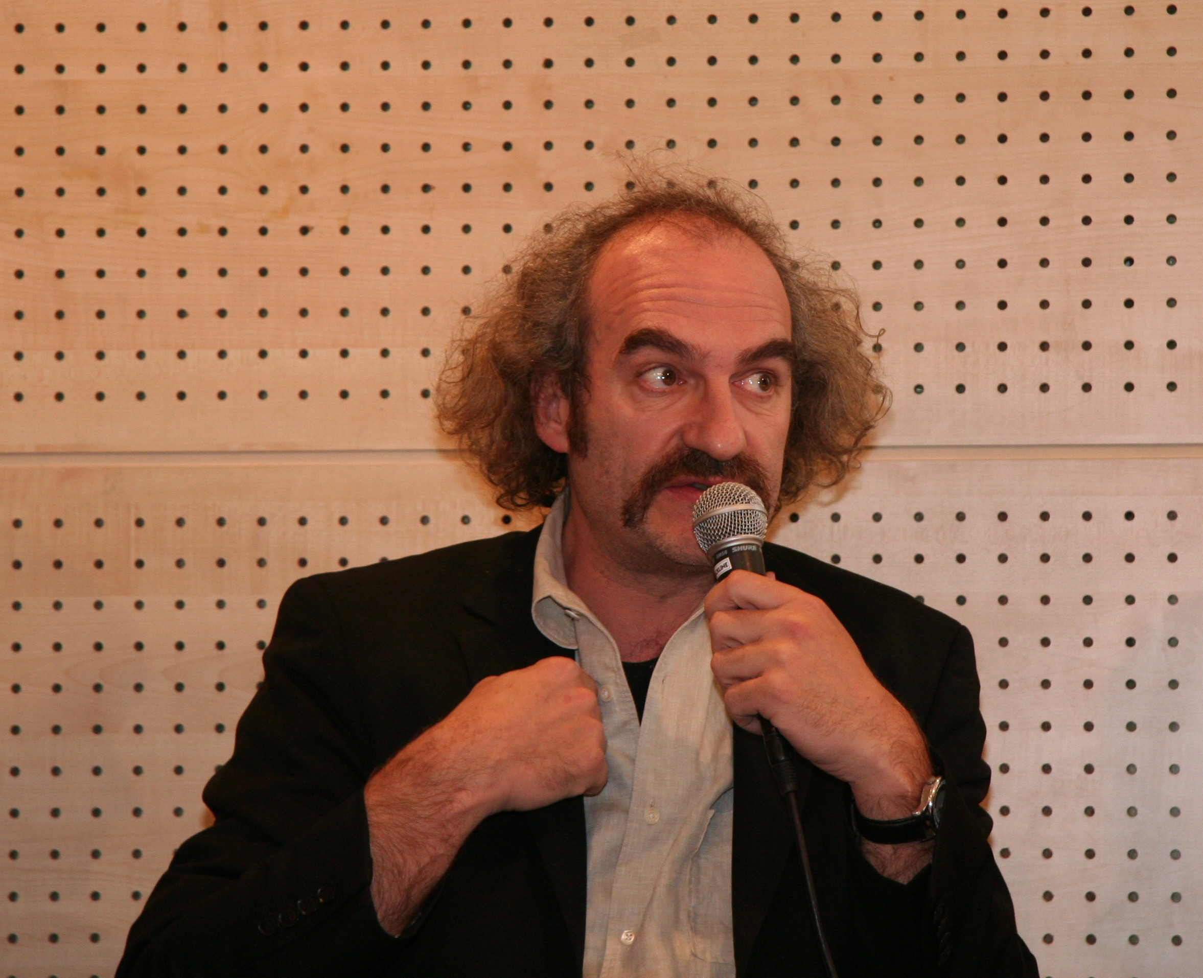 Rendezvous with Jacques Weber, Jean-Claude Houdinière, Isabelle Gélinas and Michel Vuillermoz at Fnac Saint-Lazare (Paris, France).